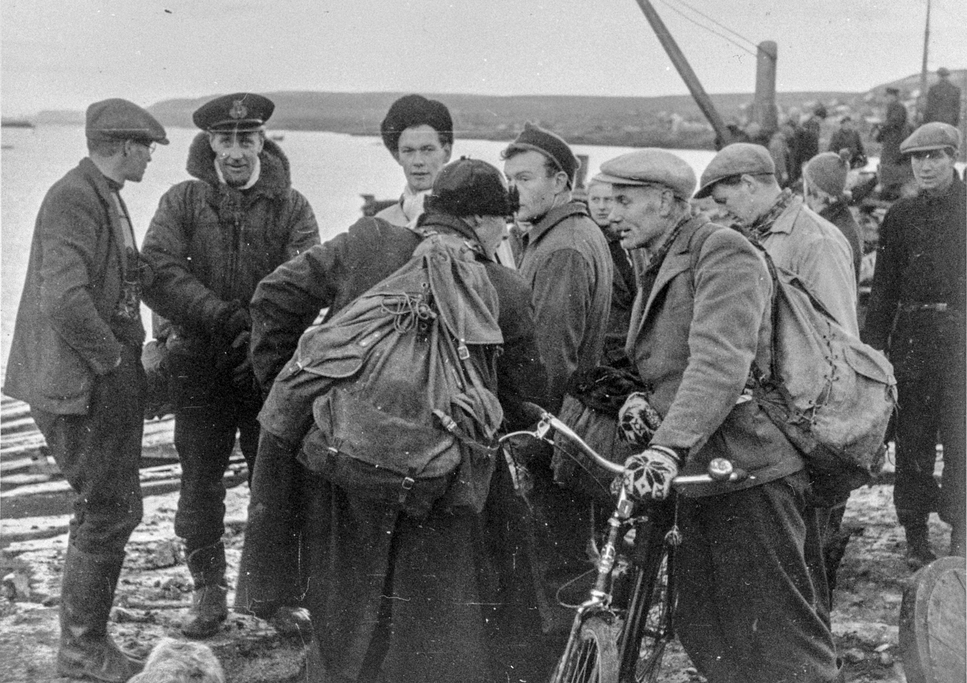 Photos from Flickr album "Evakueringen og frigjøringen av Finnmark" (The Evacuation and Liberation of Finnmark, 2015) ny Riksarkivet (National Archives of Norway). Towards the end of World War II, with Operation Nordlicht, the Germans used the scorched earth tactic in Finnmark and northern Troms to halt the Red Army. As a consequence of this, few houses survived the war, and a large part of the population was forcefully evacuated further south (Tromsø was crowded), but many people avoided evacuation by hiding in caves and mountain huts and waited until the Germans were gone, then inspected their burned homes. There were 11,000 houses, 4,700 cow sheds, 106 schools, 27 churches, and 21 hospitals burned. There were 22,000 communications lines destroyed, roads were blown up, boats destroyed, animals killed, and 1,000 children separated from their parents. However, after taking the town of Kirkenes on 25 October 1944 (as the first town in Norway), the Red Army did not attempt further offensives in Norway. The town was handed over to Norway as the war ended. When war was over, more than 70,000 people were left homeless in Finnmark. The government imposed a temporary ban on residents returning to Finnmark because of the danger of landmines. The ban lasted until the summer of 1945 when evacuees were told that they could finally return home.